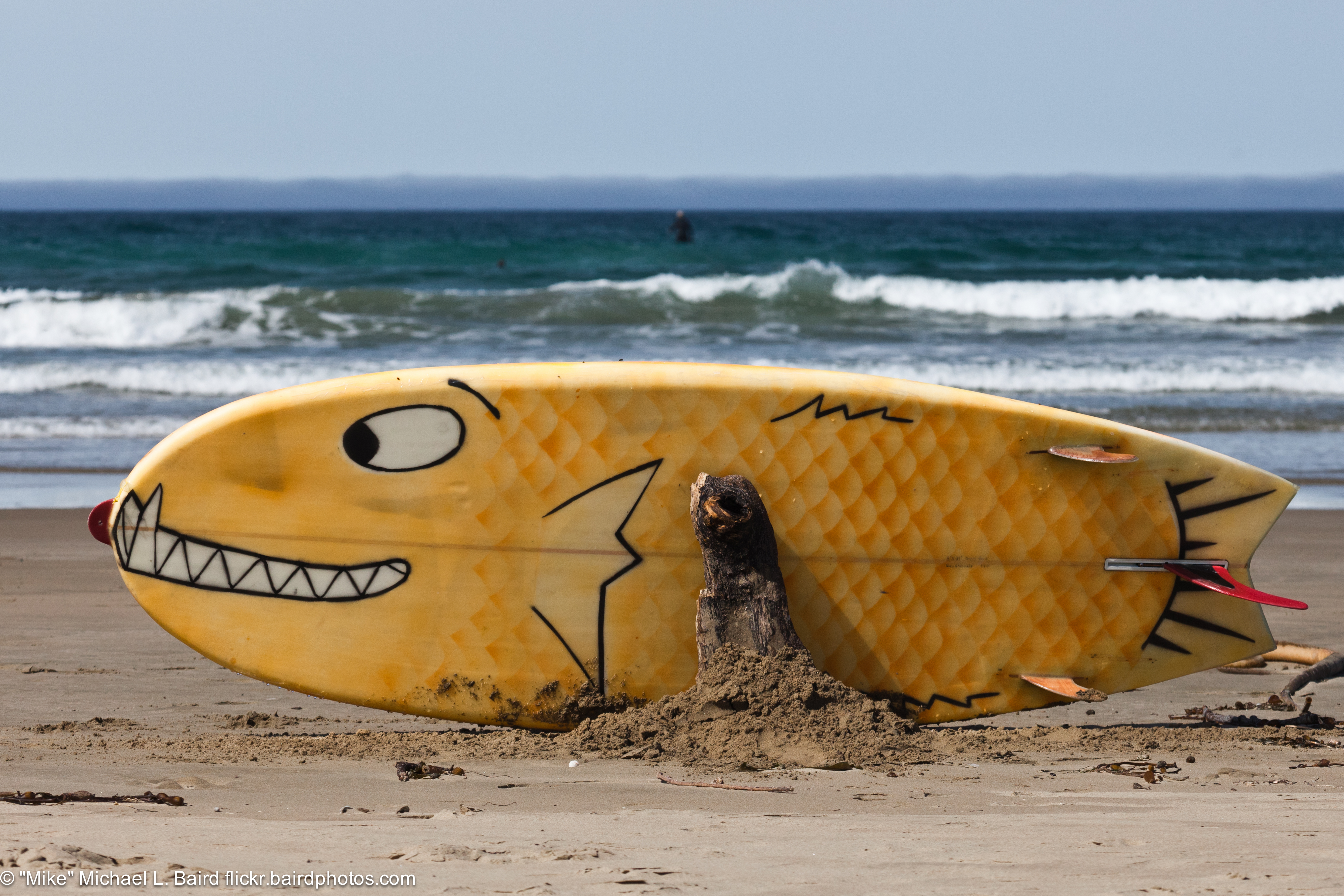 A surf board with a creative artistic smiling fish pattern painted on the bottom, as seen near Morro Rock on the Morro Strand State Beach, Morro Bay, CA 04 March 201. Photo © 2011 “Mike” Michael L. Baird, mike {at] mikebaird d o t com, . Shooting a Canon EOS 5D Mark II 21.1MP Full Frame CMOS Digital SLR Camera with Canon EF 100-400mm f4.5-5.6L IS USM Telephoto Zoom Lens, circular polarizer, handheld with IS on, RAW. To use this photo, see access, attribution, and commenting recommendations at - Please add comments/notes/tags to add to or correct information, identification, etc. Please, no comments or invites with gaudy badges, unrelated images, flashing icons, multiple invites, or invites with award levels and/or award/post rules. Critique is always welcomed.